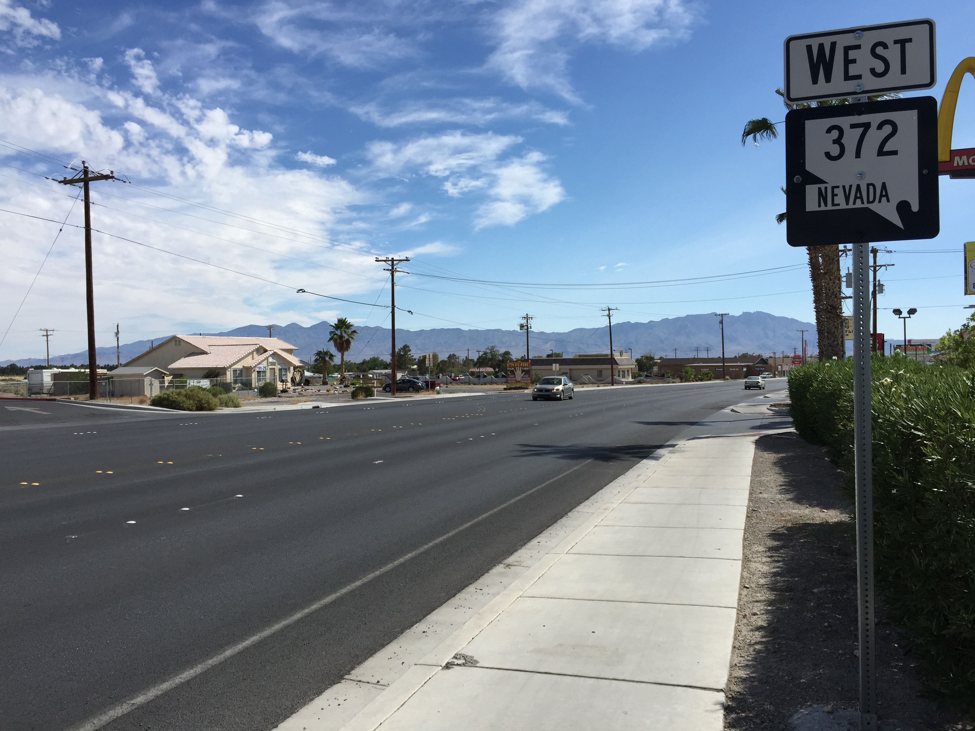 View west from the east end of Nevada State Route 372 (Charles Brown Highway) in Pahrump, Nevada